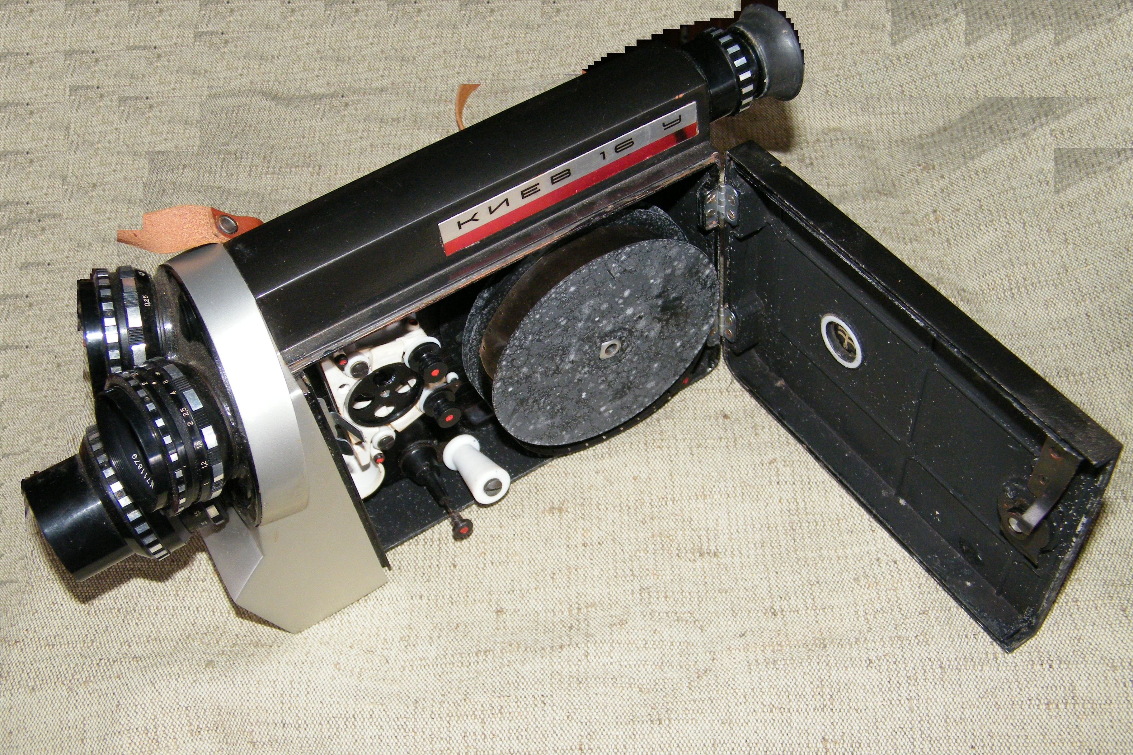 Киев-16У 16-мм кинокамера